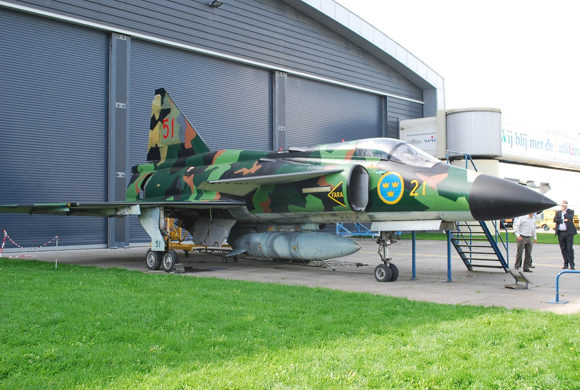 37901 latest addition to the Avidrome museum!